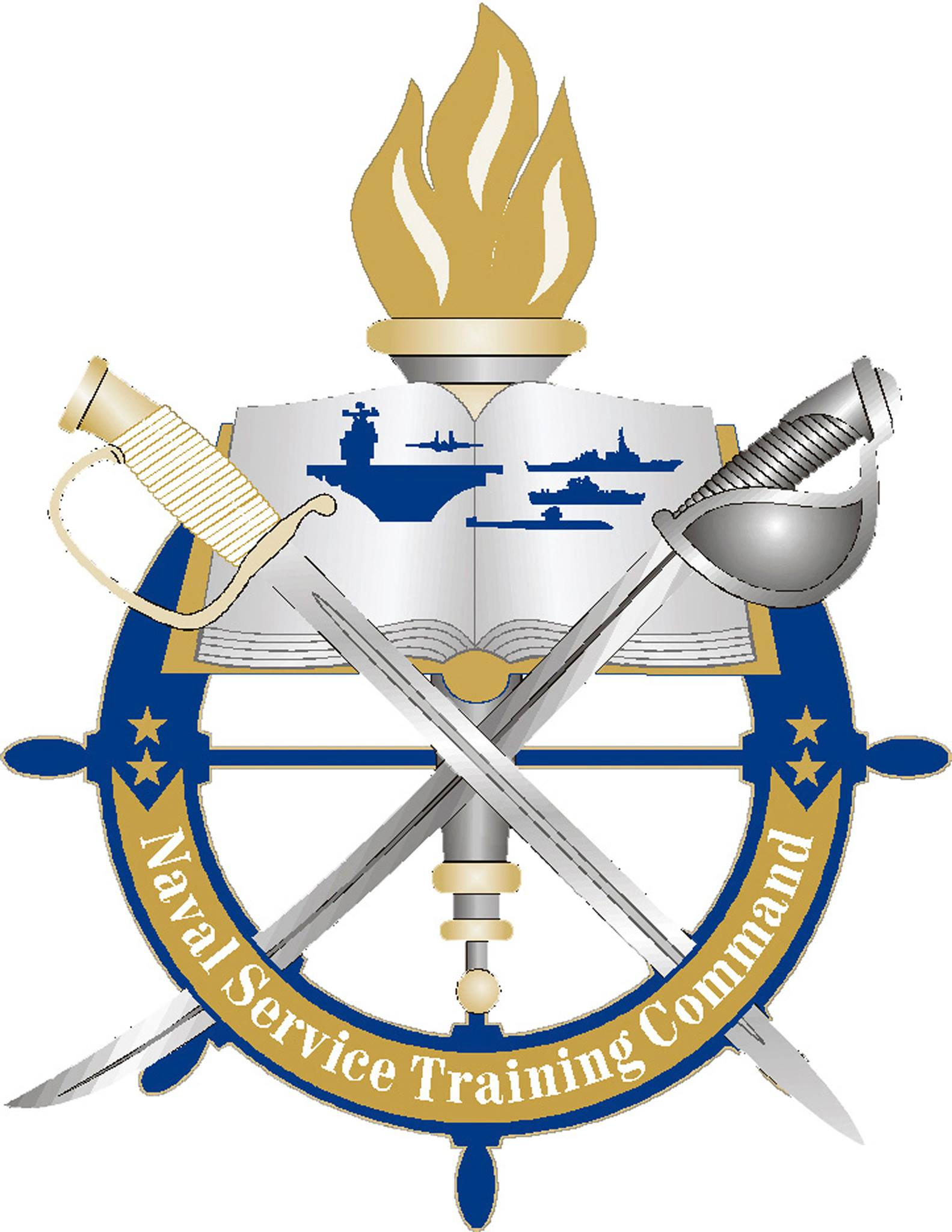 Logo/Insignia of Naval Service Training Command